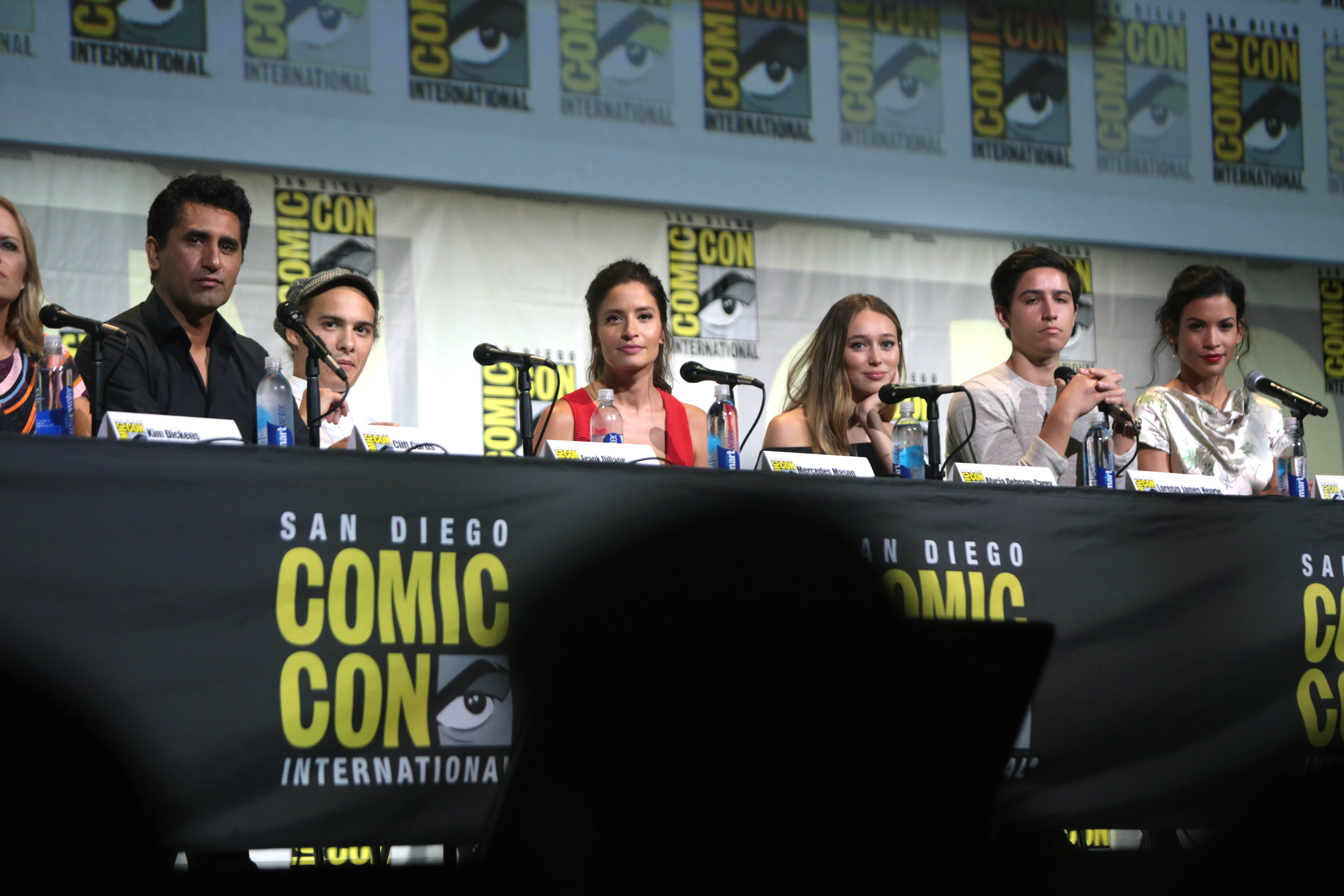 Cliff Curtis, Frank Dillane, Mercedes Mason, Alycia Debnam-Carey, Lorenzo James Henrie and Danay Garcia speaking at the 2016 San Diego Comic Con International, for "Fear the Walking Dead", at the San Diego Convention Center in San Diego, California.